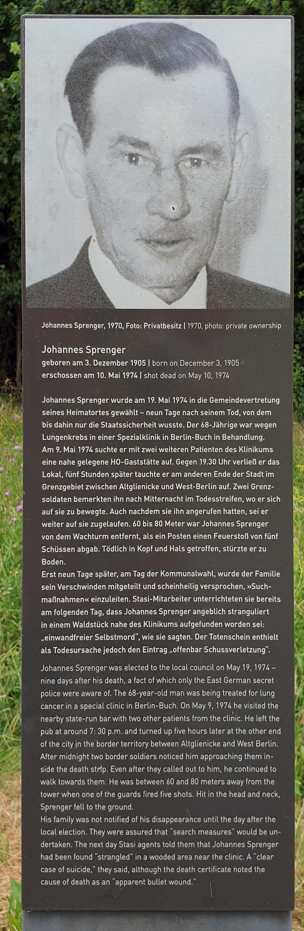 Memorial plaque, Johannes Sprenger, Berliner Mauerweg, Berlin-Altglienicke, Germany